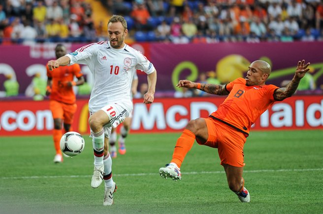 UEFA Euro 2012 match between Netherlands and Denmark that took place in Kharkiv. Final result was 0:1 (Krohn-Delhi)Dennis Rommedahl (Den) and Nigel de Jong (Net)